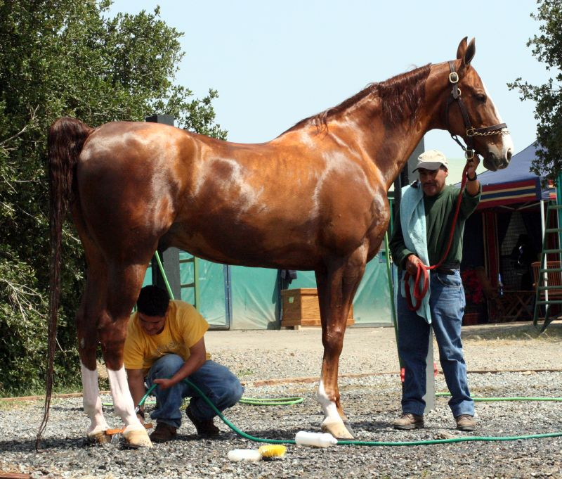 American Saddlebred